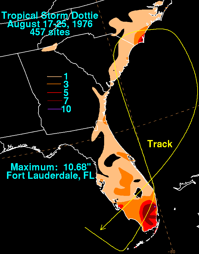 Storm total rainfall map of Tropical Storm Dottie during August 1976.